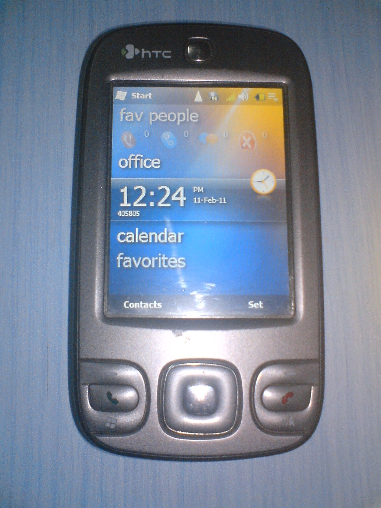 HTC Gene Running Windows Mobile 6.5.